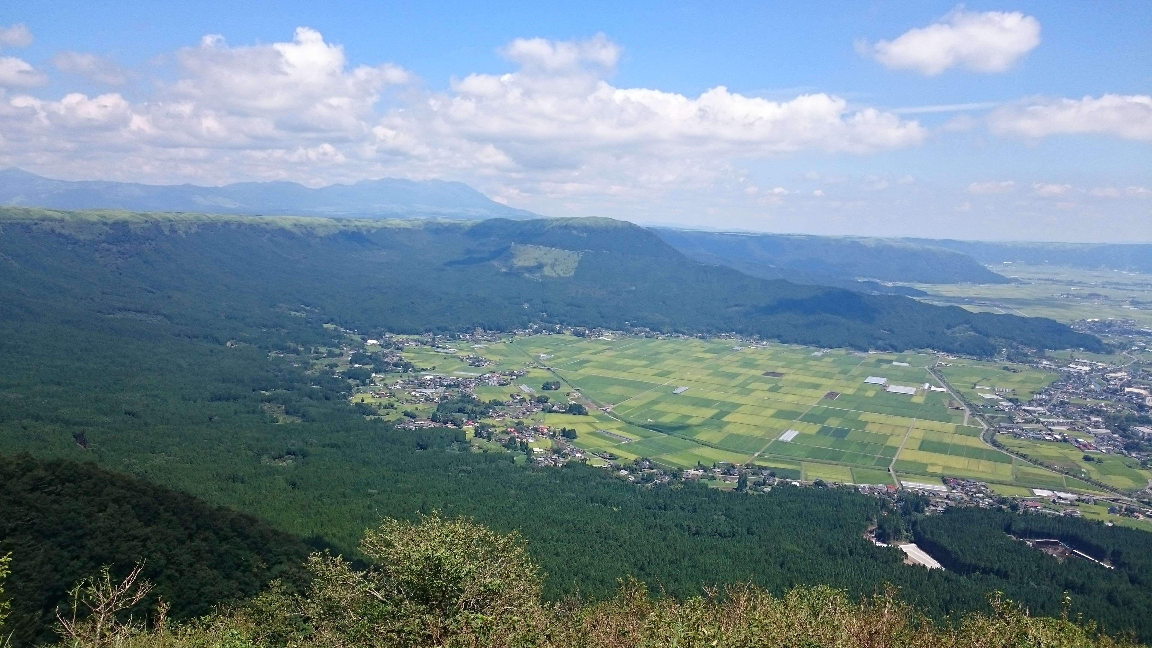 Daikanbo side of the landscape seen from the Kabutoiwa observatory